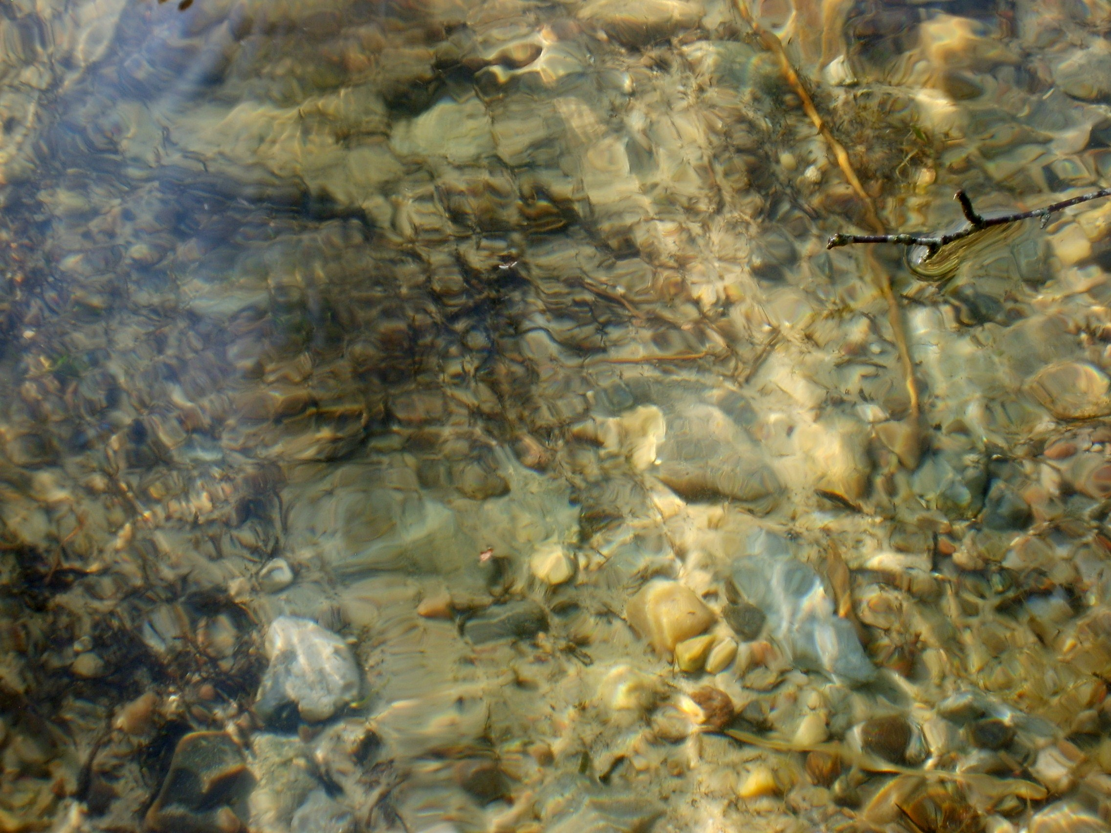 The very clear water in a lake with lobelia. Here Lake Madum in Denmark.